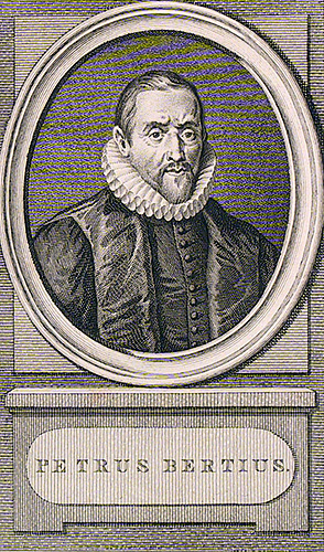 Petrus Bertius, cartographer. Engraving by Reinier Vinkeles (1787) after I. Buys.